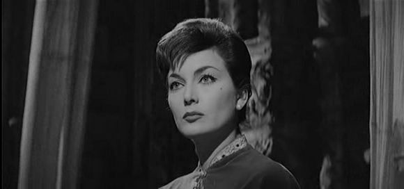 screenshot from the film I vampiri (1956)